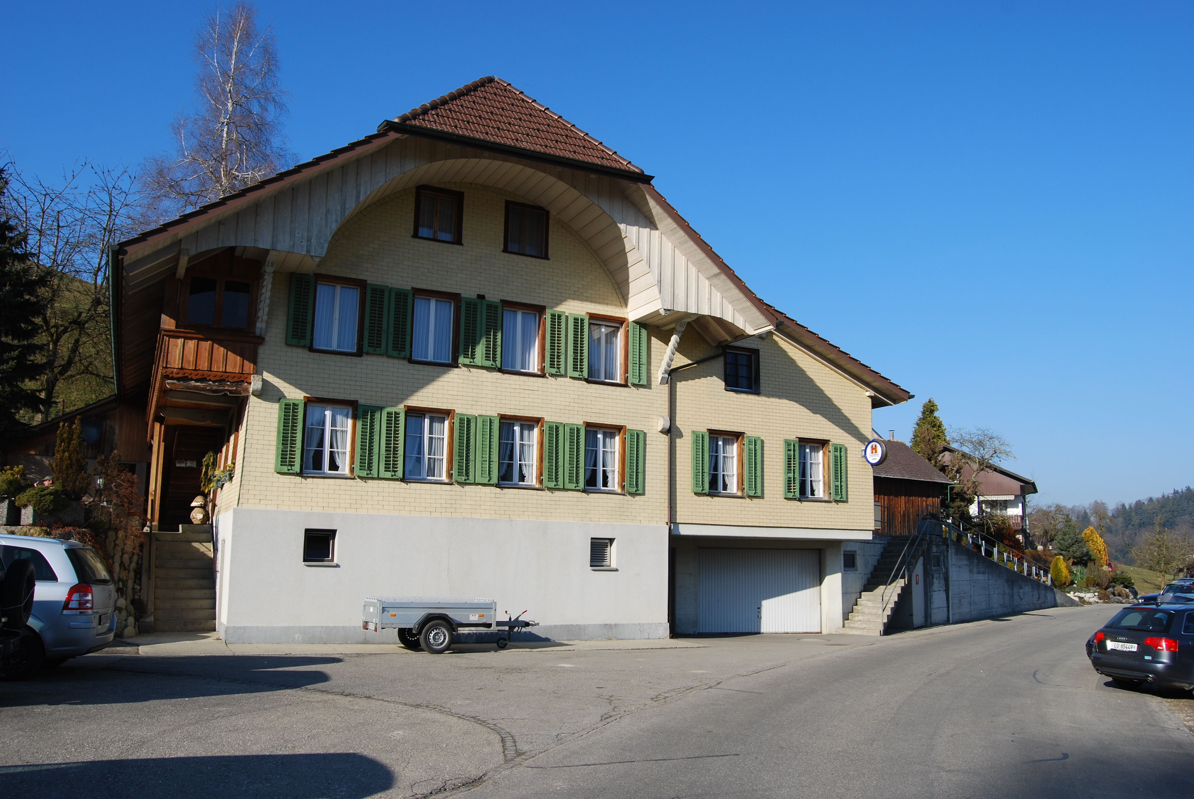 Rohrbachgraben, canton of Bern, SwitzerlandEsperanto: Rohrbachgraben, Kantono Berno, Svislando